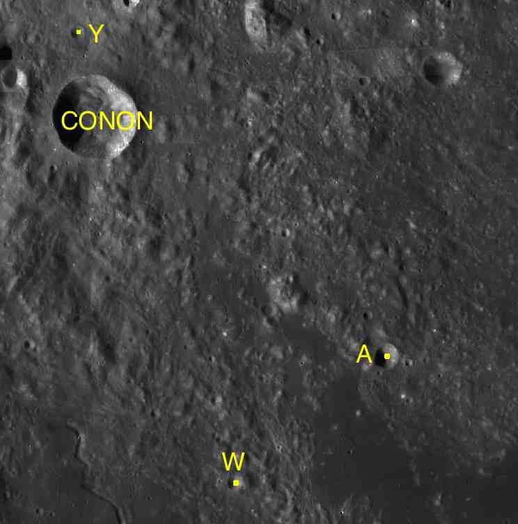 Part of the chart LAC-41 used for the presentation